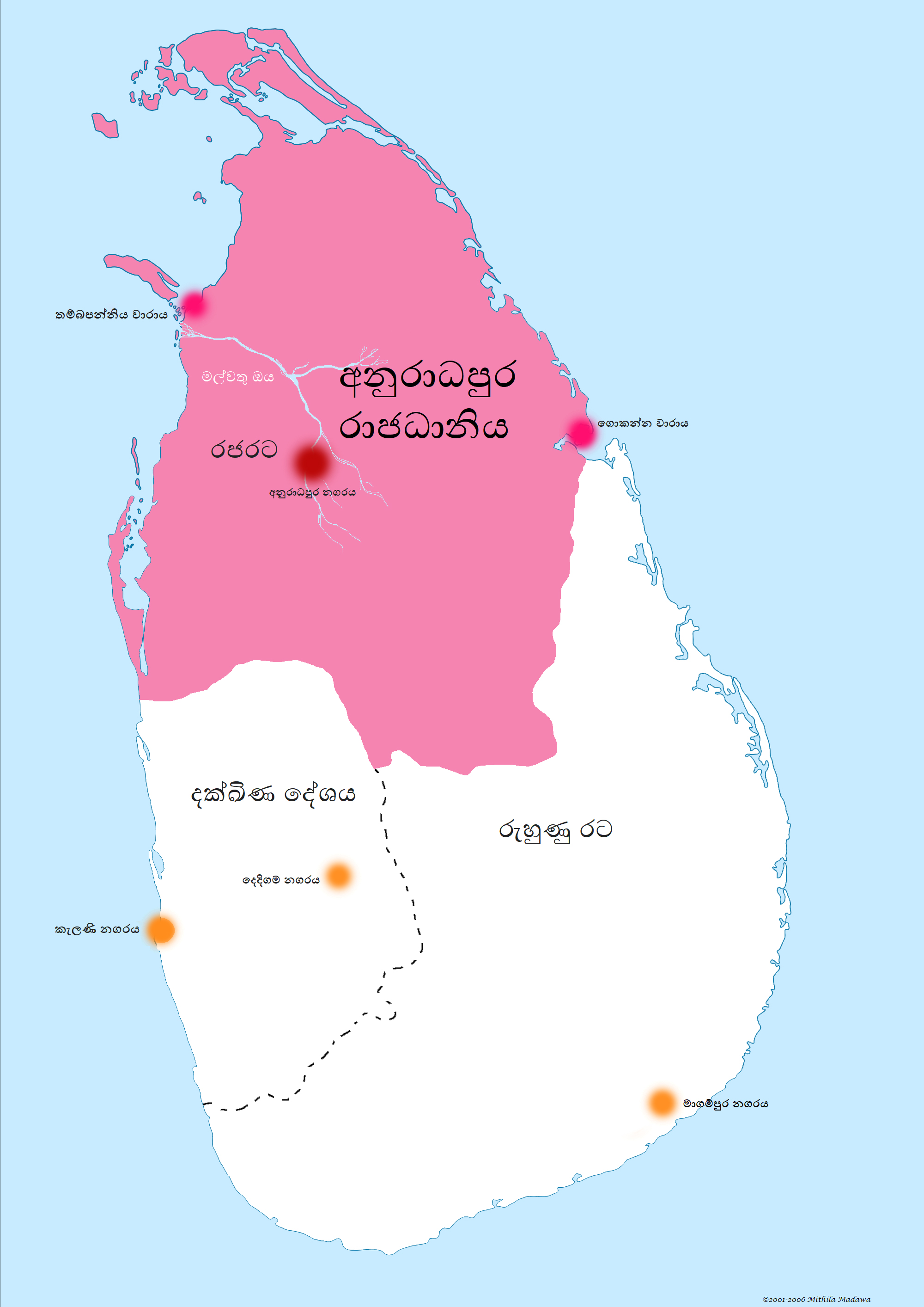 අනුරාධපුර රාජධානිය තුළ ස්වාධීන ප්‍රදේශ ඇතුළත් සිතියම.